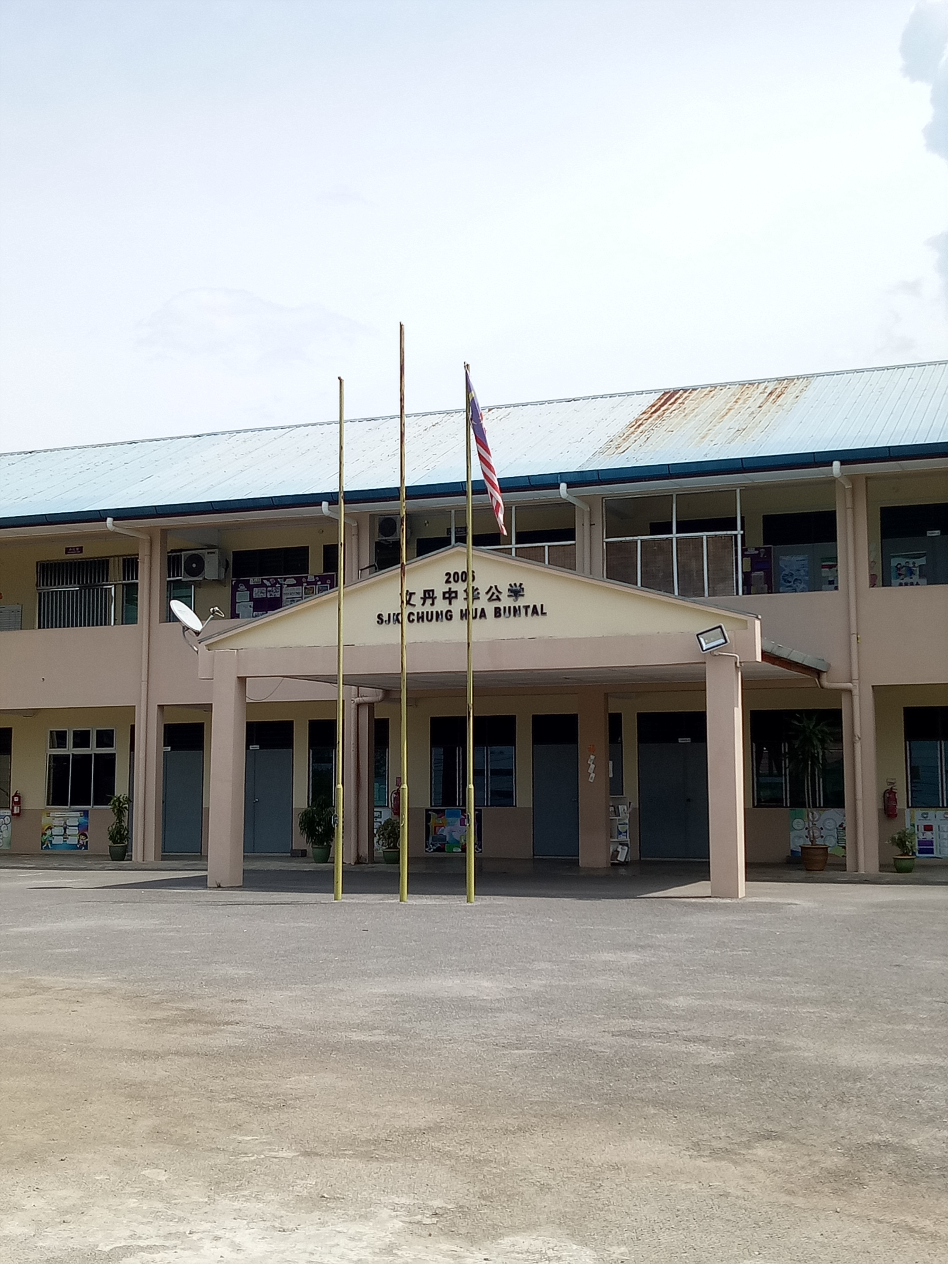 SJK Chung Hua Buntal